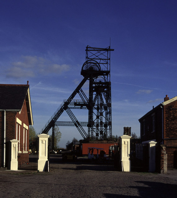 Astley Green Pit gates and headgear in Astley, Greater Manchester, England. Now preserved as a steam heritage and mining heritage centre.